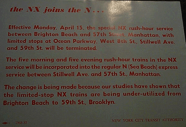 This poster was created in 1968 by the New York City Transit Authority to inform riders of the discontinuation of the NX super express route.